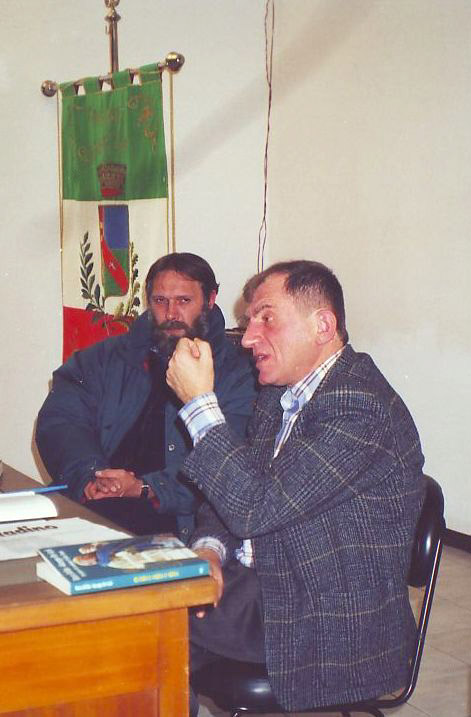 Italian journalist (Vaticanist) Giuseppe De Carli